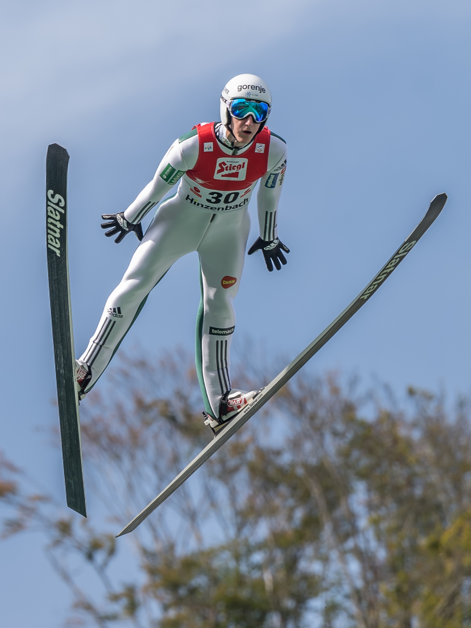 Hinzenbach, Austria, FIS Ski Jumping Grand Prix 2016